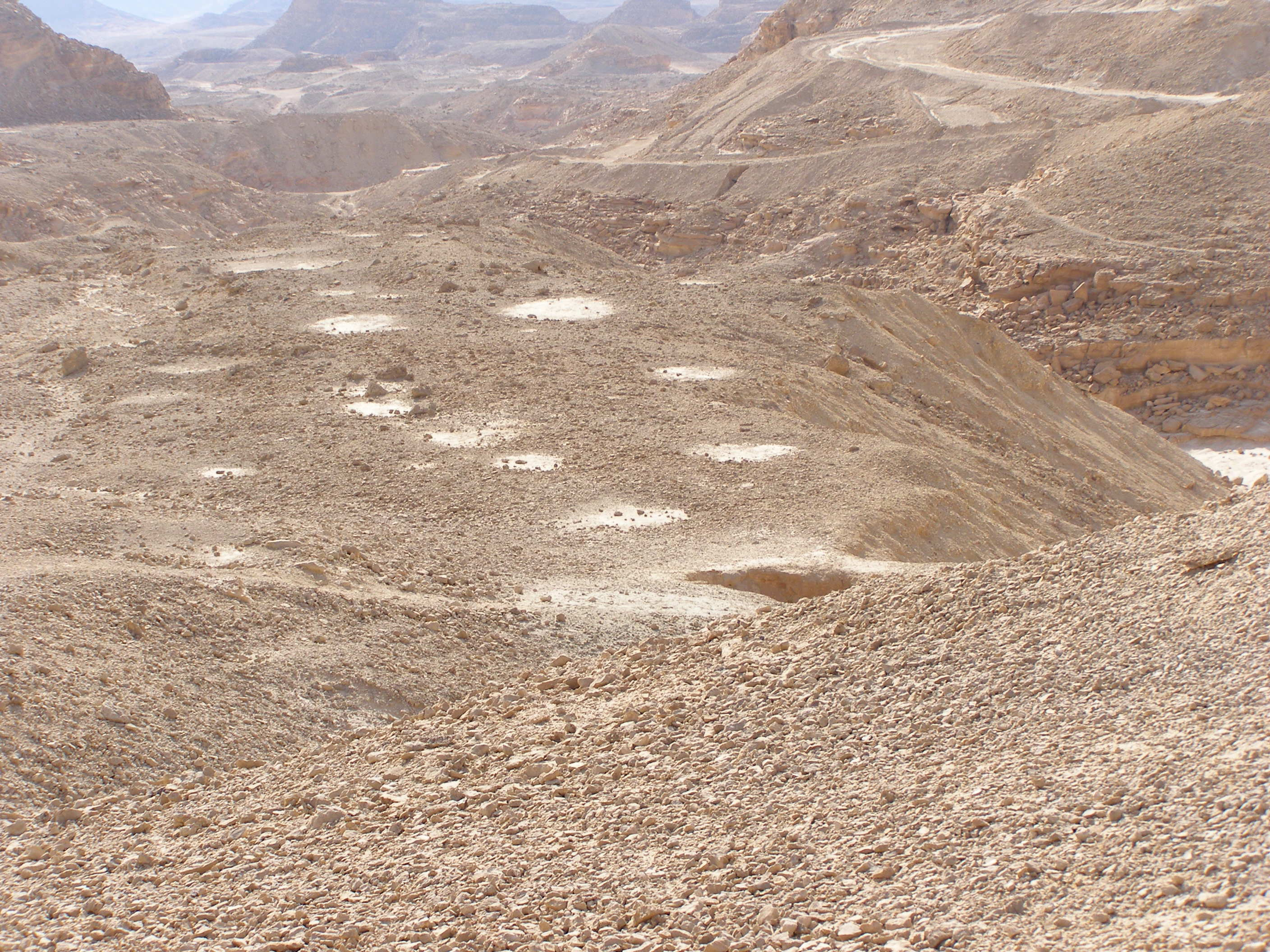 "Plates" in Timna Vally